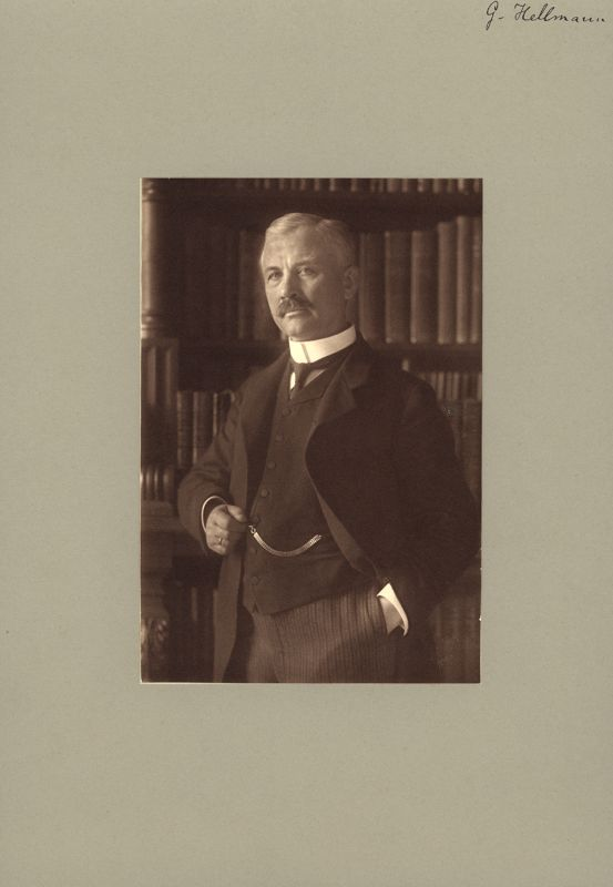 Gustav Hellmann (1854–1939), german meteorologist and climatologist